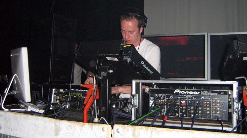 Sasha performing live with Maven controller